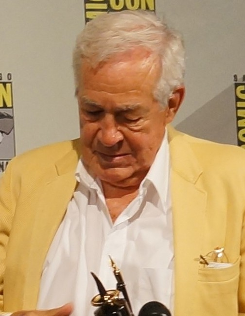 Dylan Sprayberrym Molly Quinn, Dan Jurgans, Jack Larson